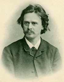 Gustav Láska (1847–1928), czech composer and double bassist